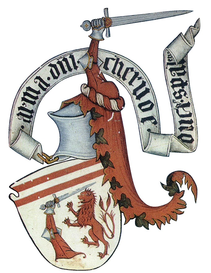 Coat of Arms of Hrvoje VukčićHrvatski: Grb Hrvoja Vukčića